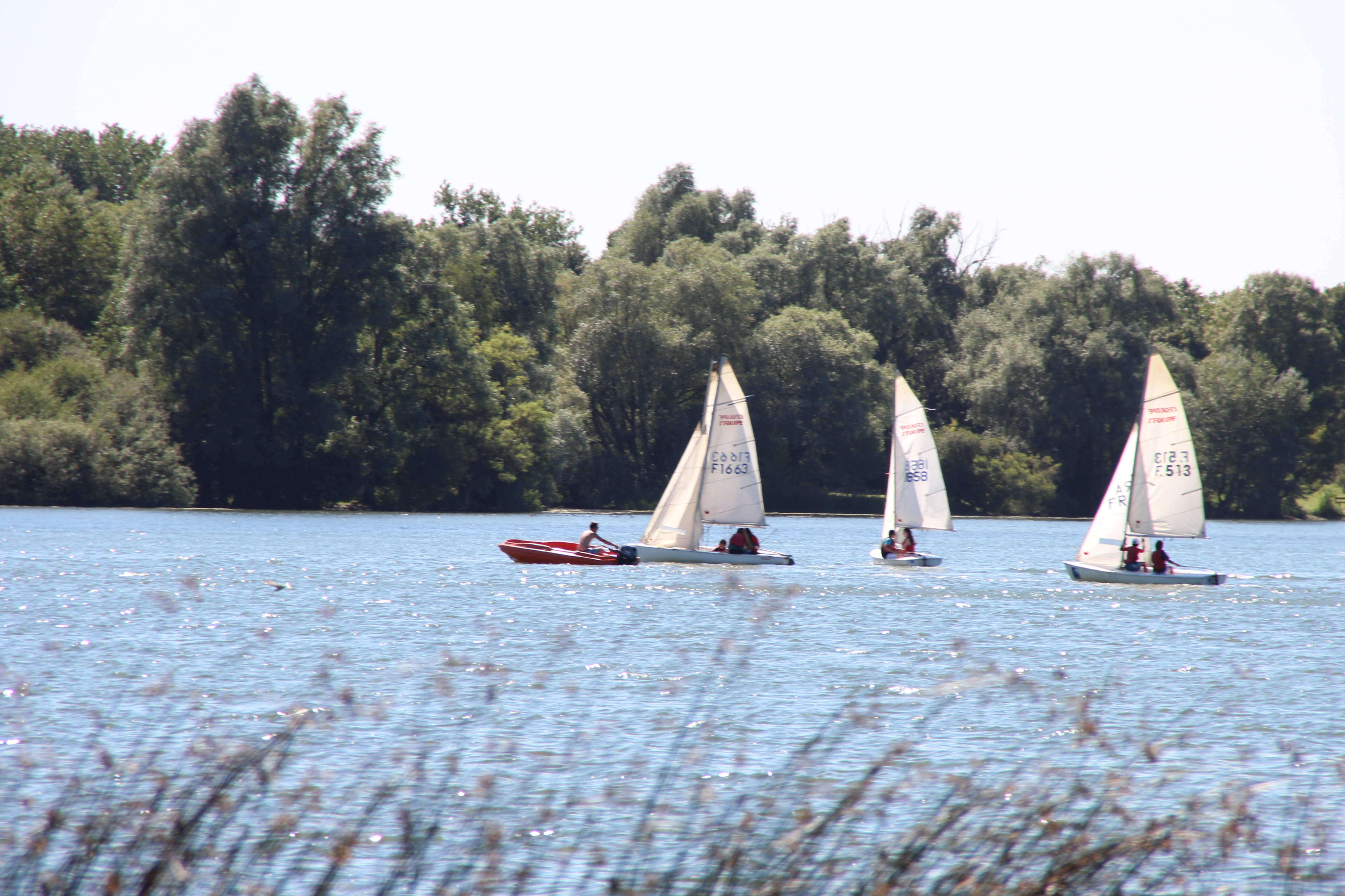 Saint-Quentin-en-Yvelines leisure center in Montigny-le-Bretonneux, France.